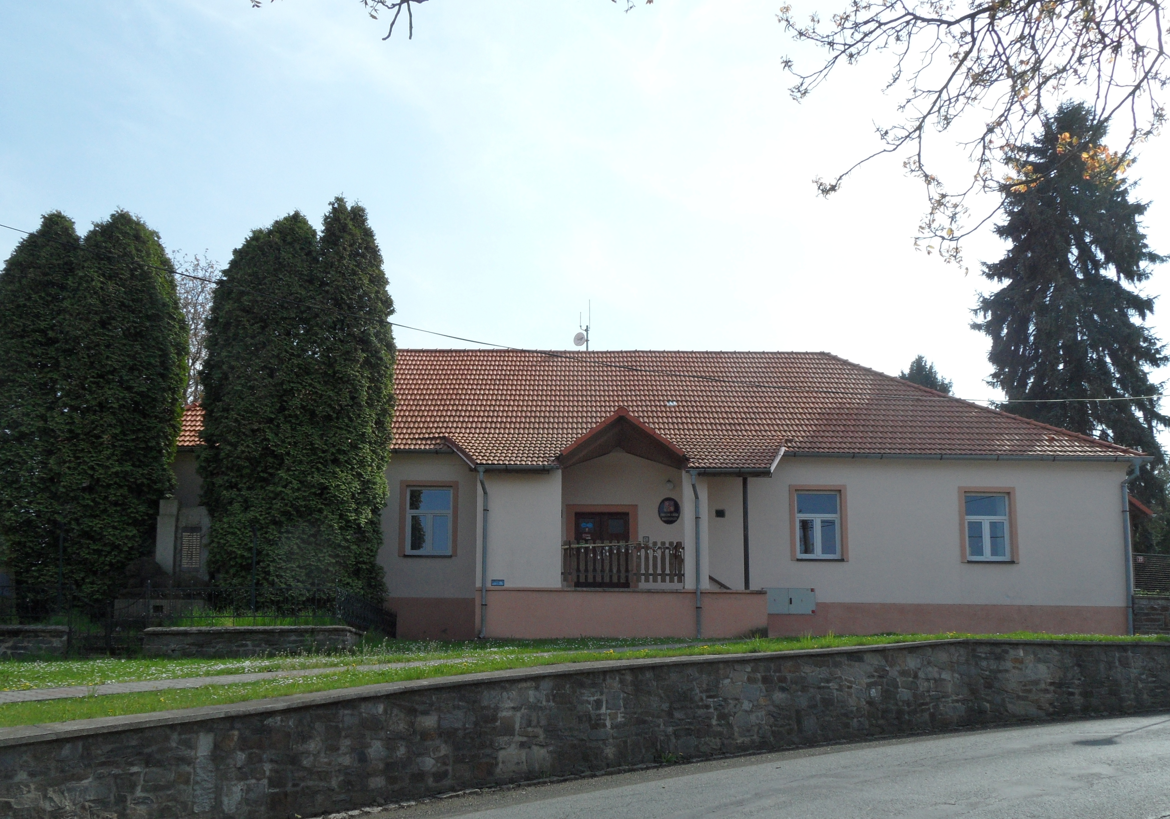 Radovesnice I g. Building of Municipality Office, Kolín District, the Czech Republic.